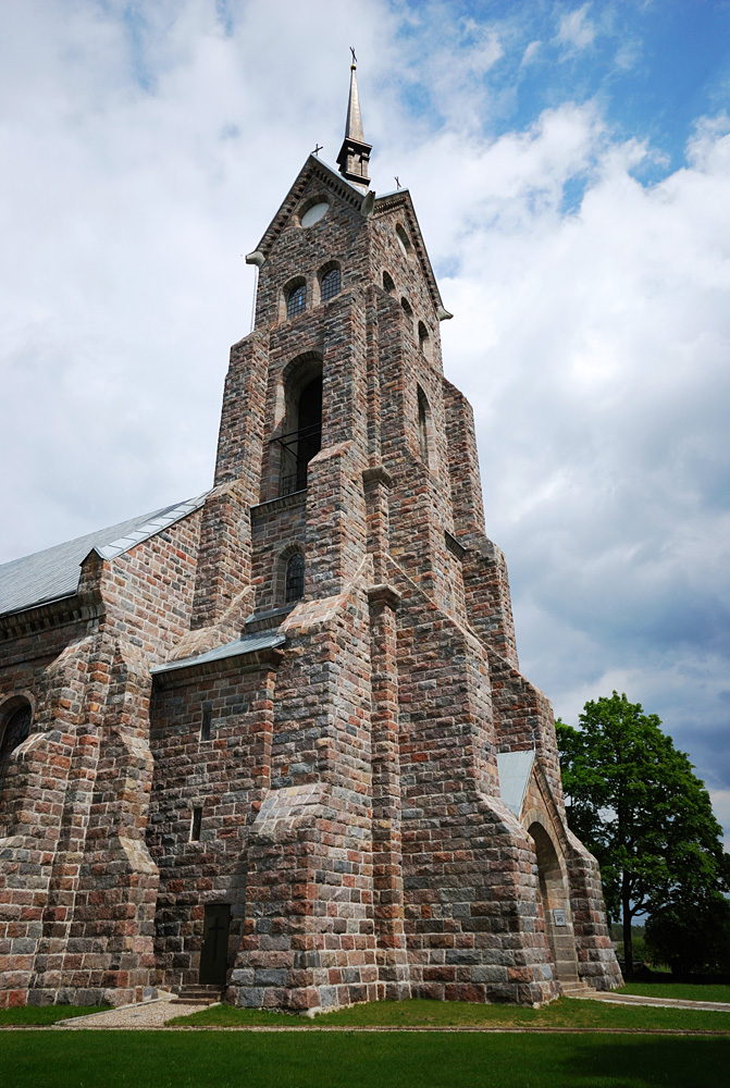 Salakas church tower